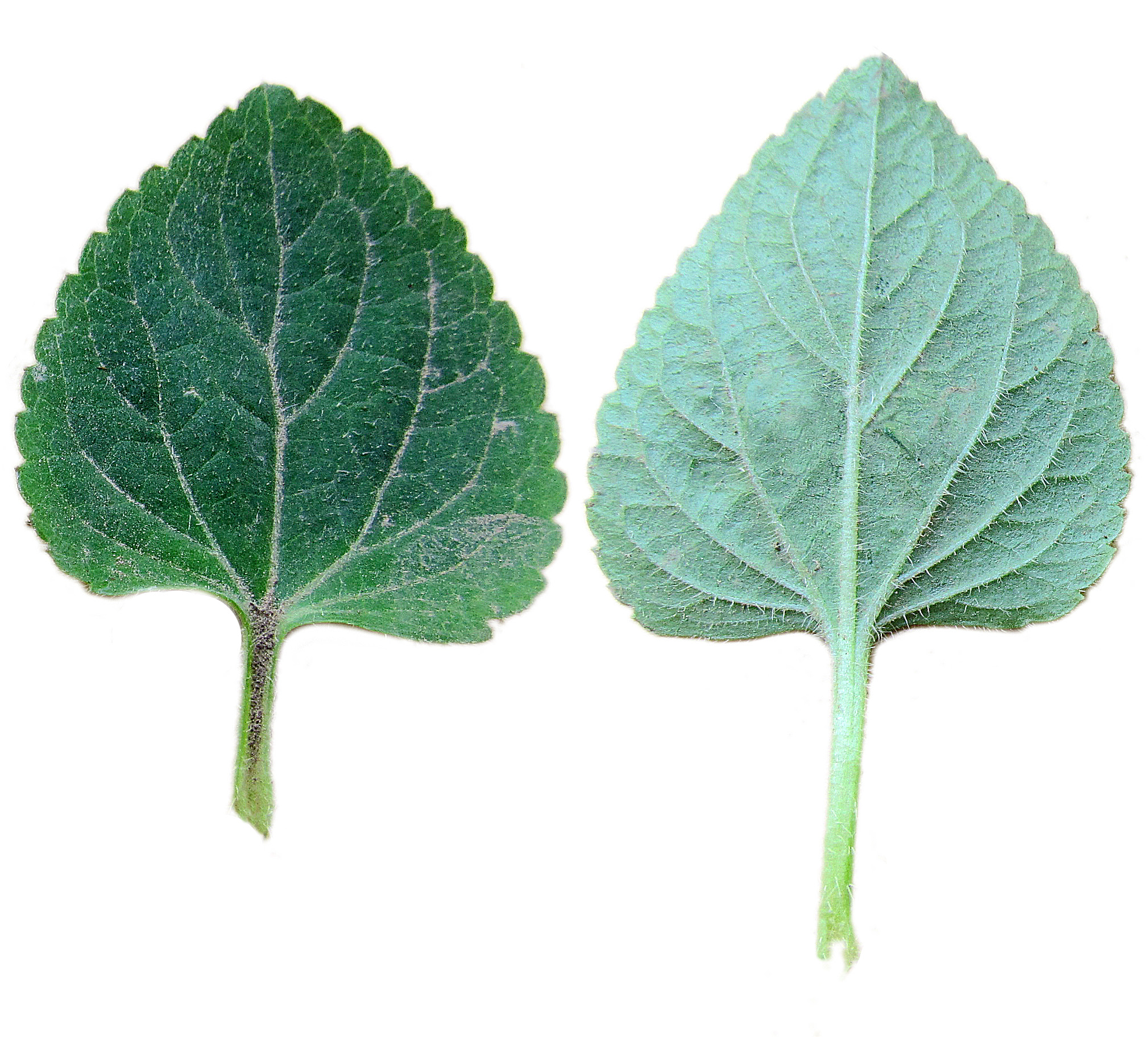 Ageratum houstonianum leaf